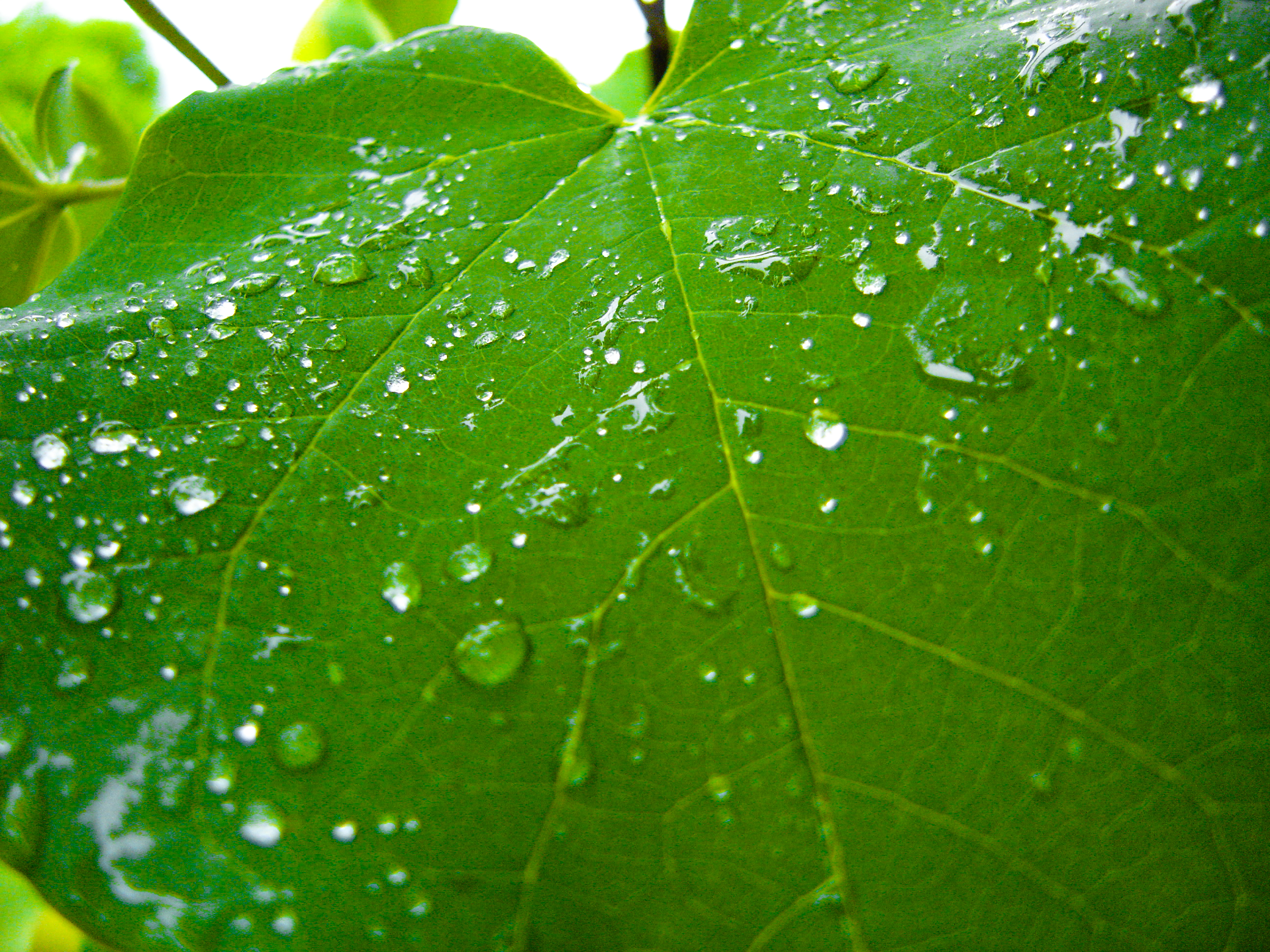 Rain on a grapevine leaf in a vineyard.